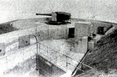 Princess Royal's Battery, Upper Rock Nature Reserve, Gibraltar, with 6 inch breech loading Mark VII gun. November 1903.